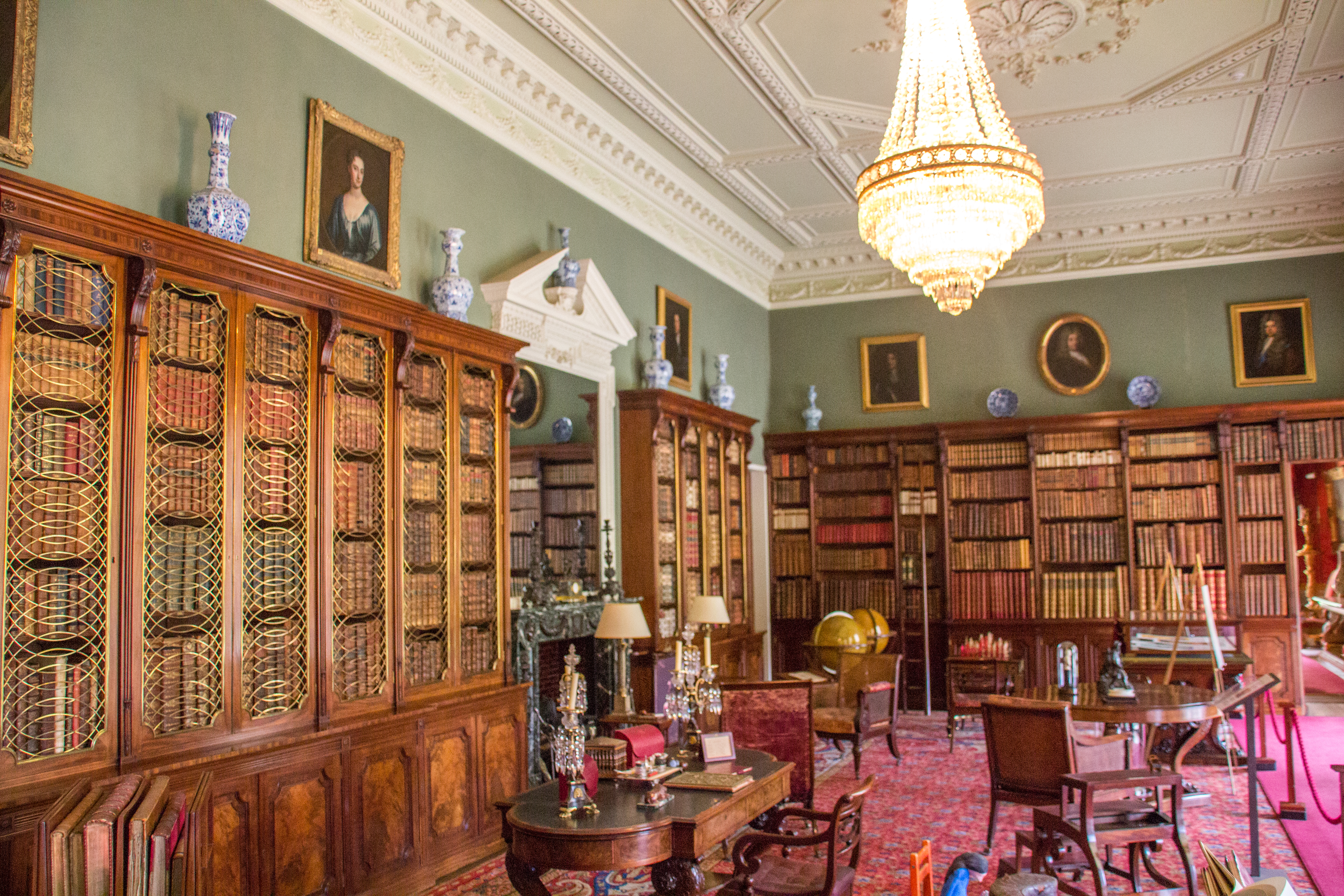 Tatton Hall, Tatton Park, United Kingdom